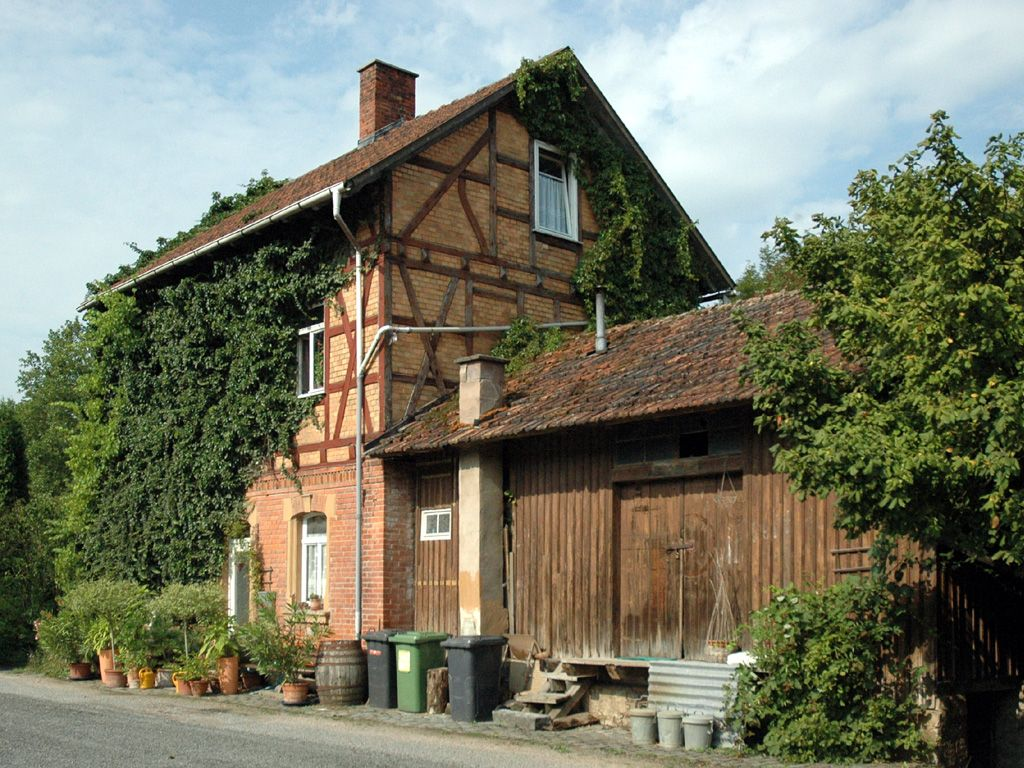 former station building of Jagst valley rail line at Schöntal abbey